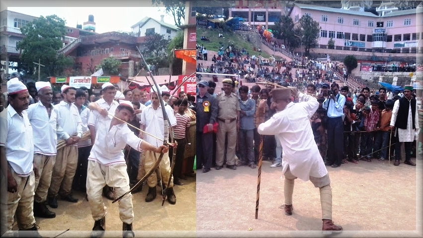 Thodo dance